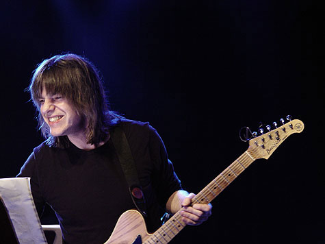 Mike Stern in Aarhus, Ddenmark 2007